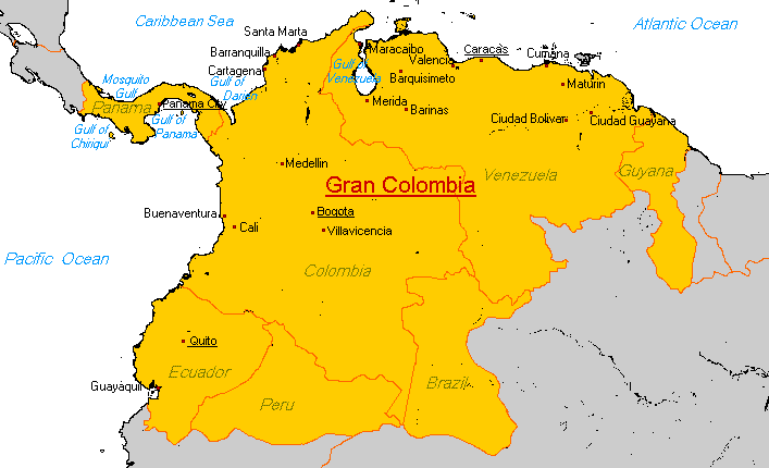 Map of the Gran Colombia